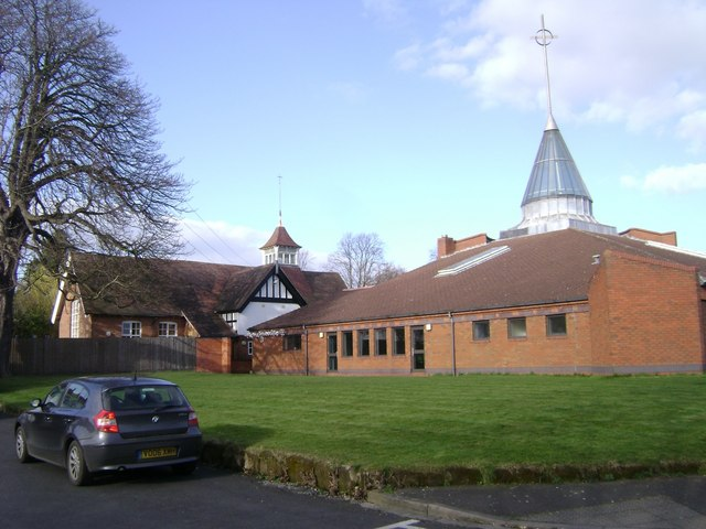 All Saints Church, Emscote, and Church Hall, Vicarage Fields, Warwick